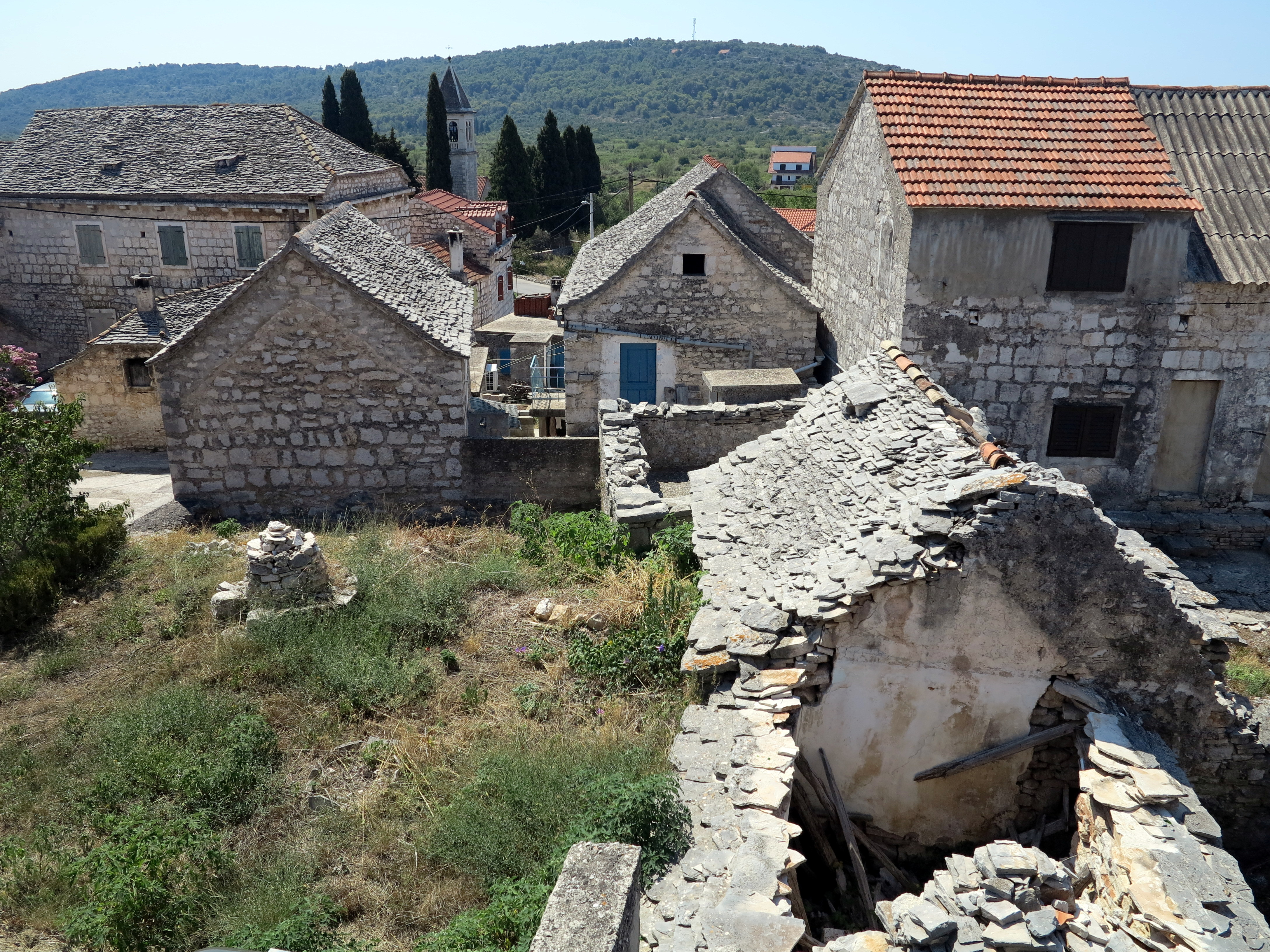 Donje Selo on the island Šolta / Croatia / Adriatic Sea. View to the south.